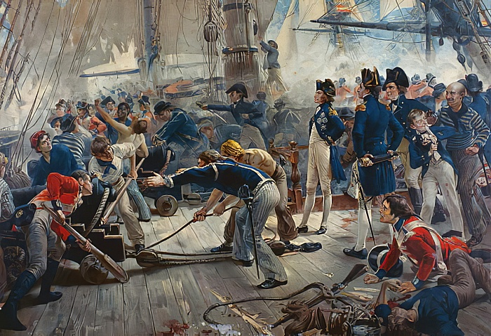 The Hero of Trafalgar